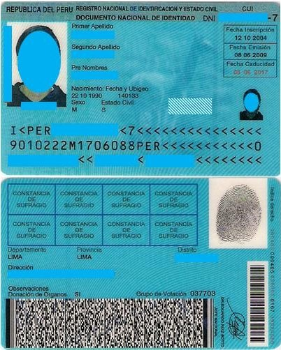 Peruvian National Document of Identity (DNI)